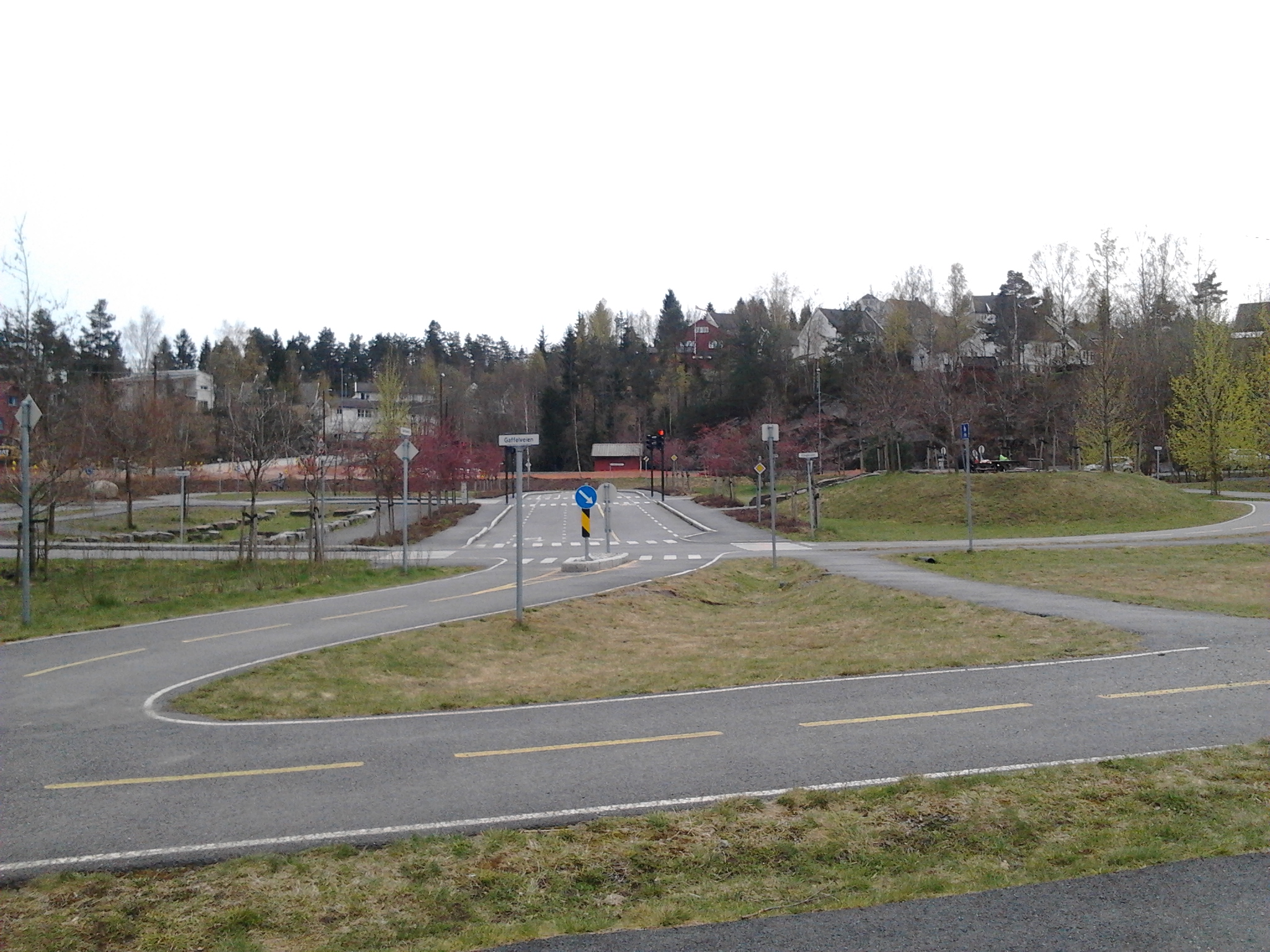 Myra Sykkelgård